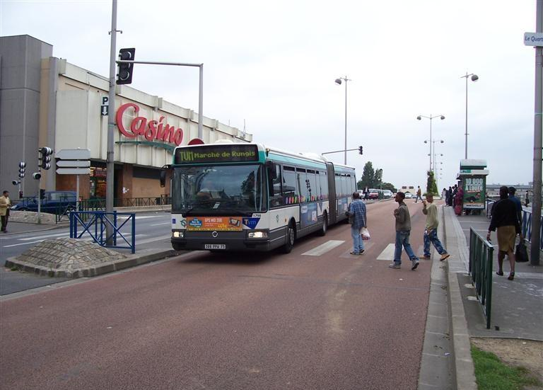 TVM at the former Choisy-le-Roi station. This station moved 50 meter west in december 2007 after major road work in this block.